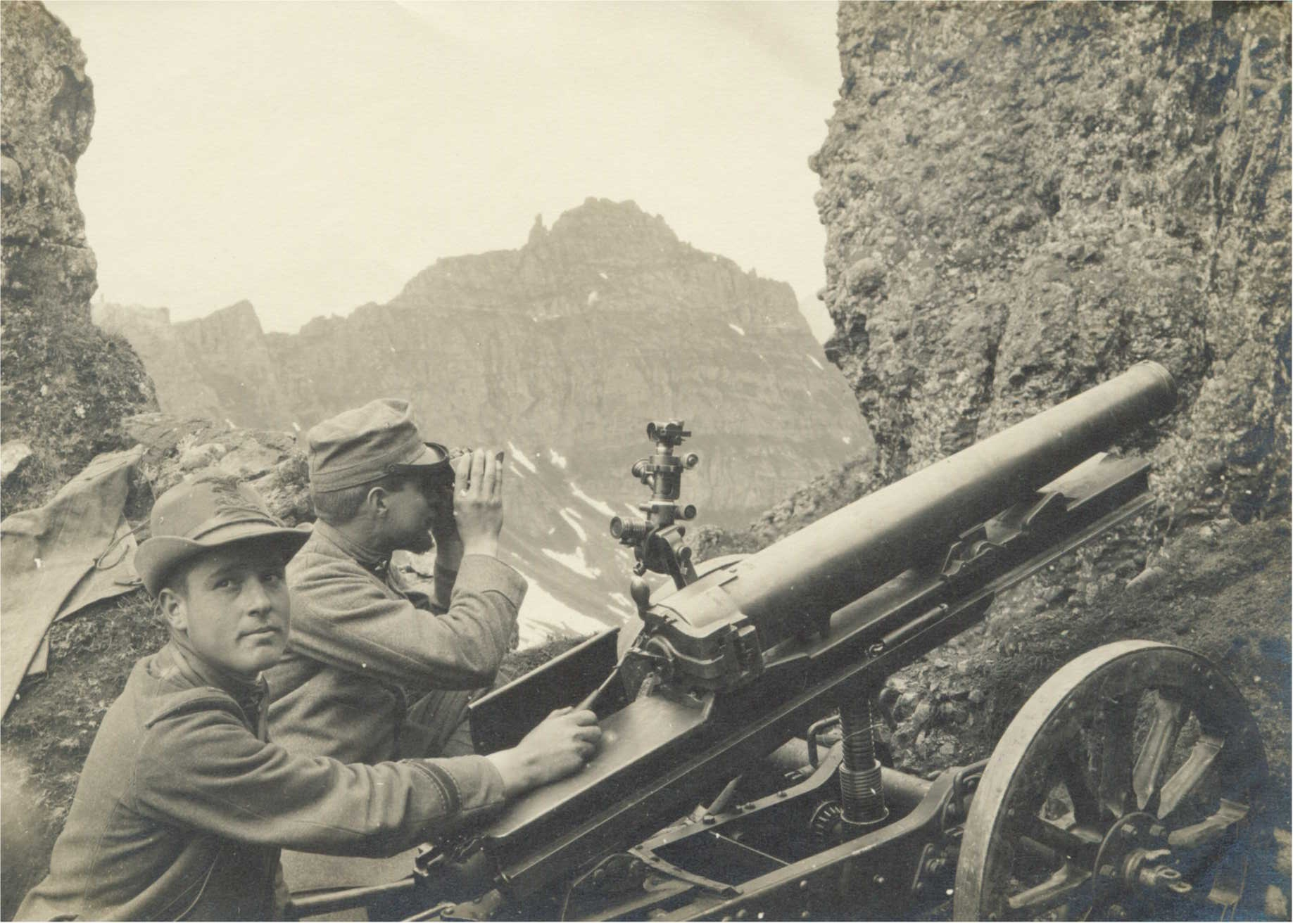 World War 1 - Italian Army: Monte Padon - Italian 65/17 modello 13 mountain howitzer firing at Austrian positions on the Sass di Mezdi